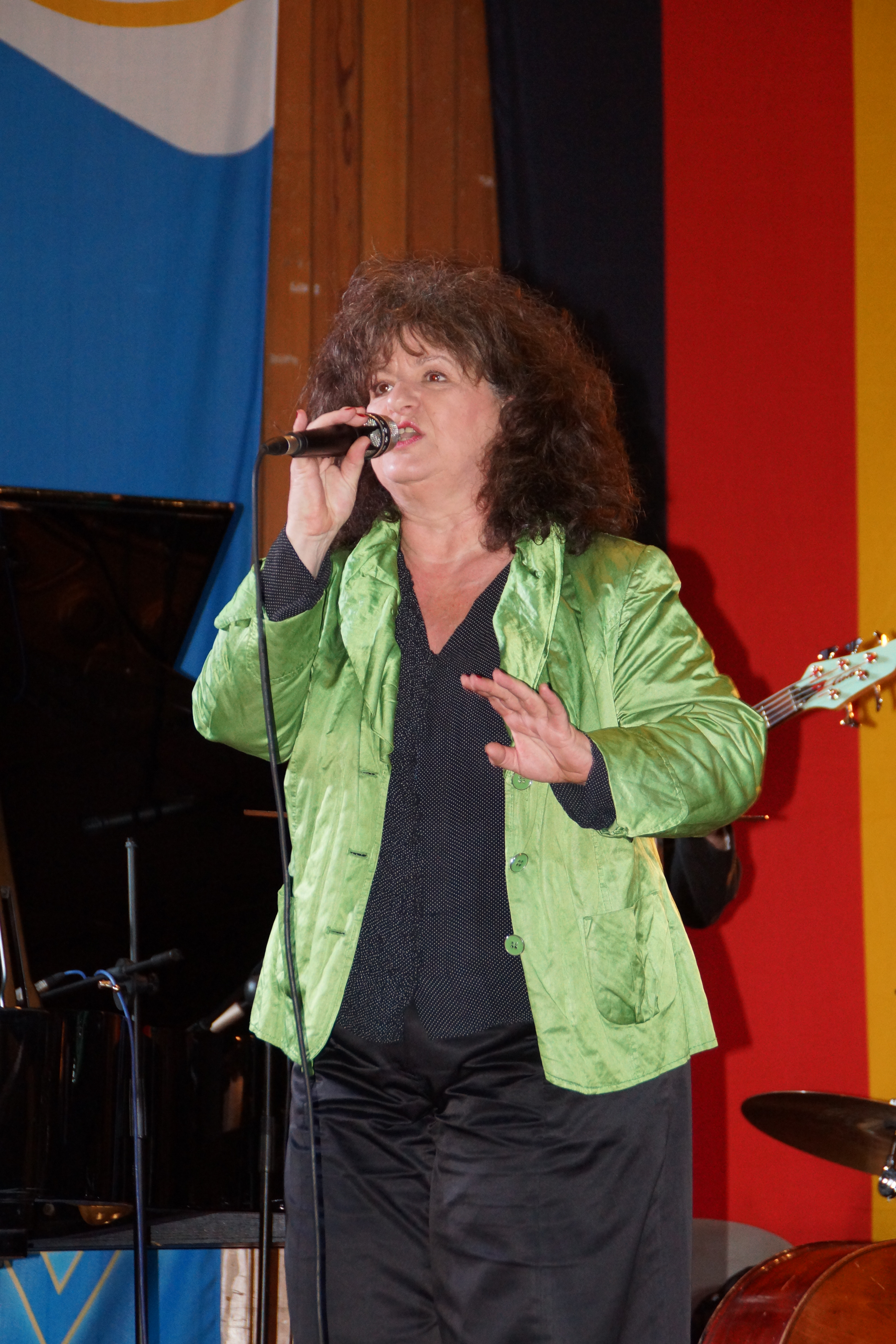 Biggi Wanninger, concert at the CJD Christophorusschule Königswinter